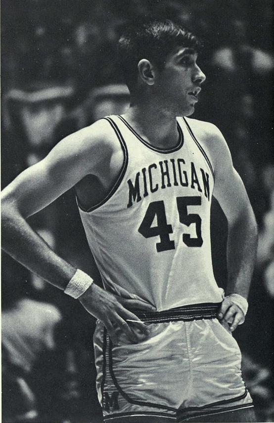 Rudy Tomjanovich